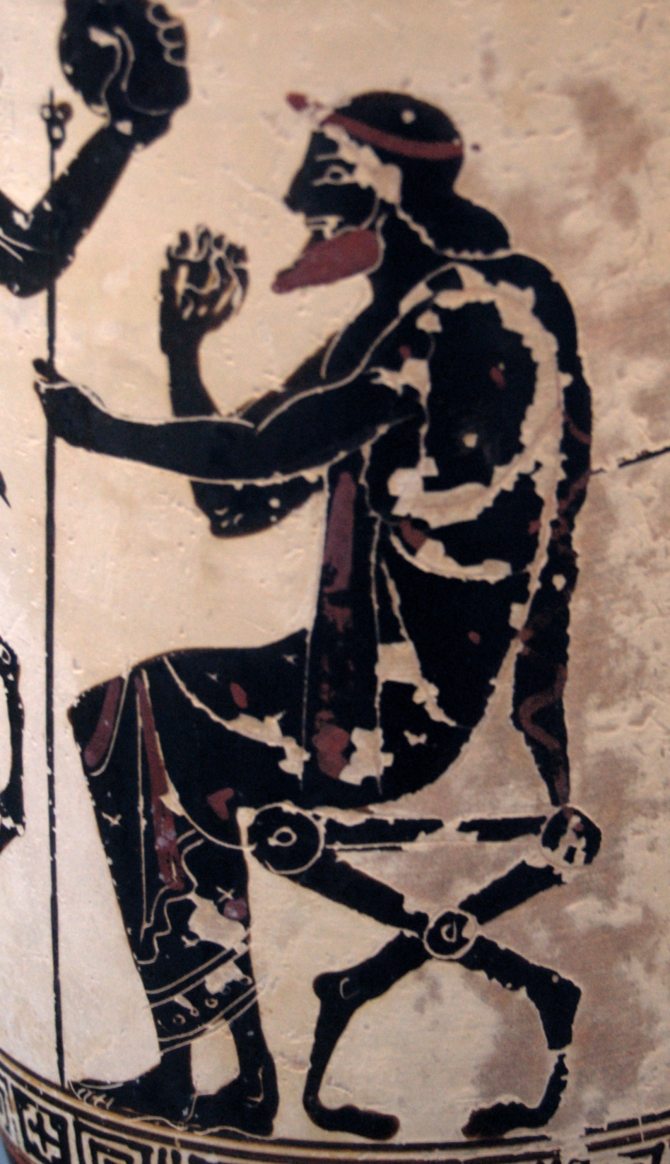 Oeneus, with coat and sceptre (Deianira and Nessus on the left). Attic white-ground lekythos, ca. 500 BC.